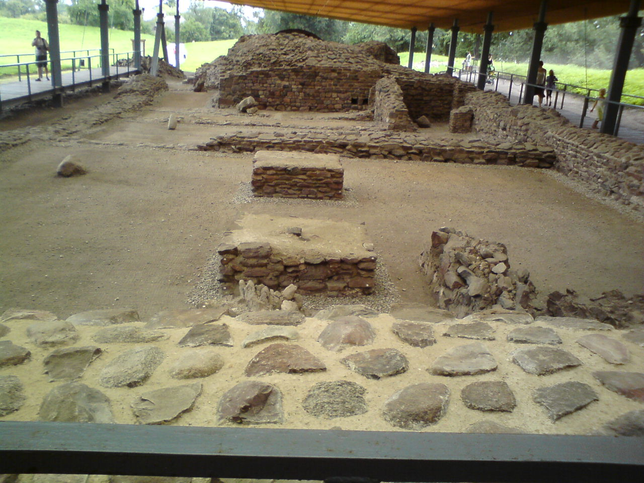 Early-medieval prince's palace at Ostrów Lednicki (Poland) - view at palatium side